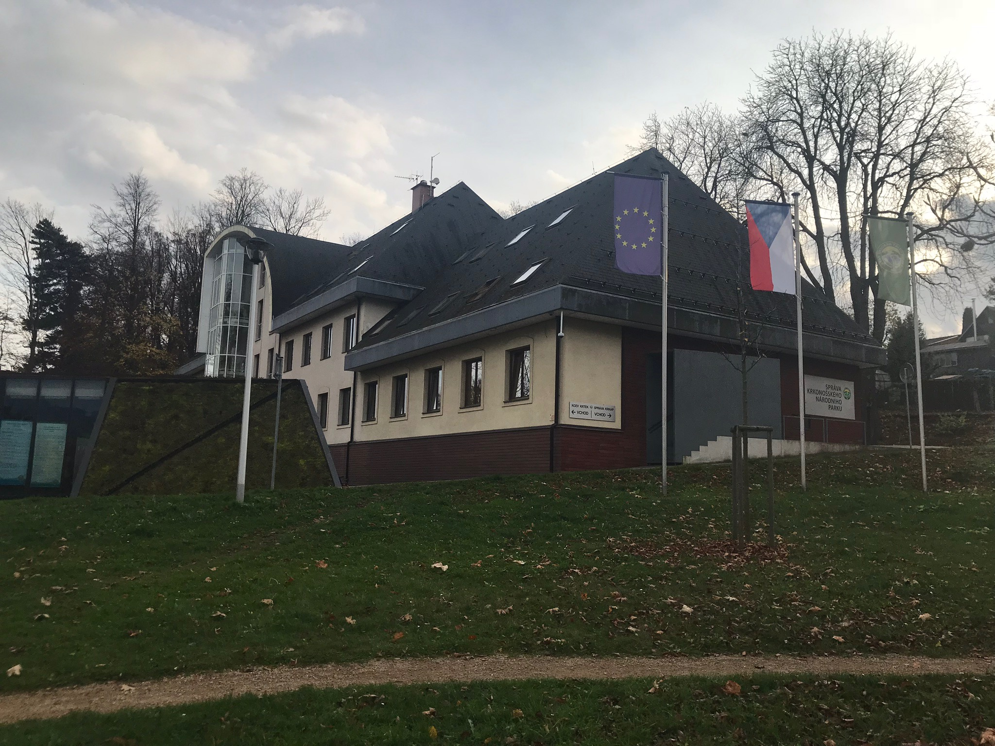 Main building of the Krkonoše National Park management (Czech: Správa Krkonošského národního parku) in Vrchlabí, 2017